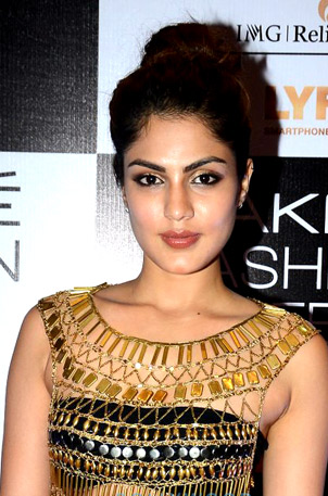 Rhea Chakraborty at Lakme Fashion Week 2016 - Day 3